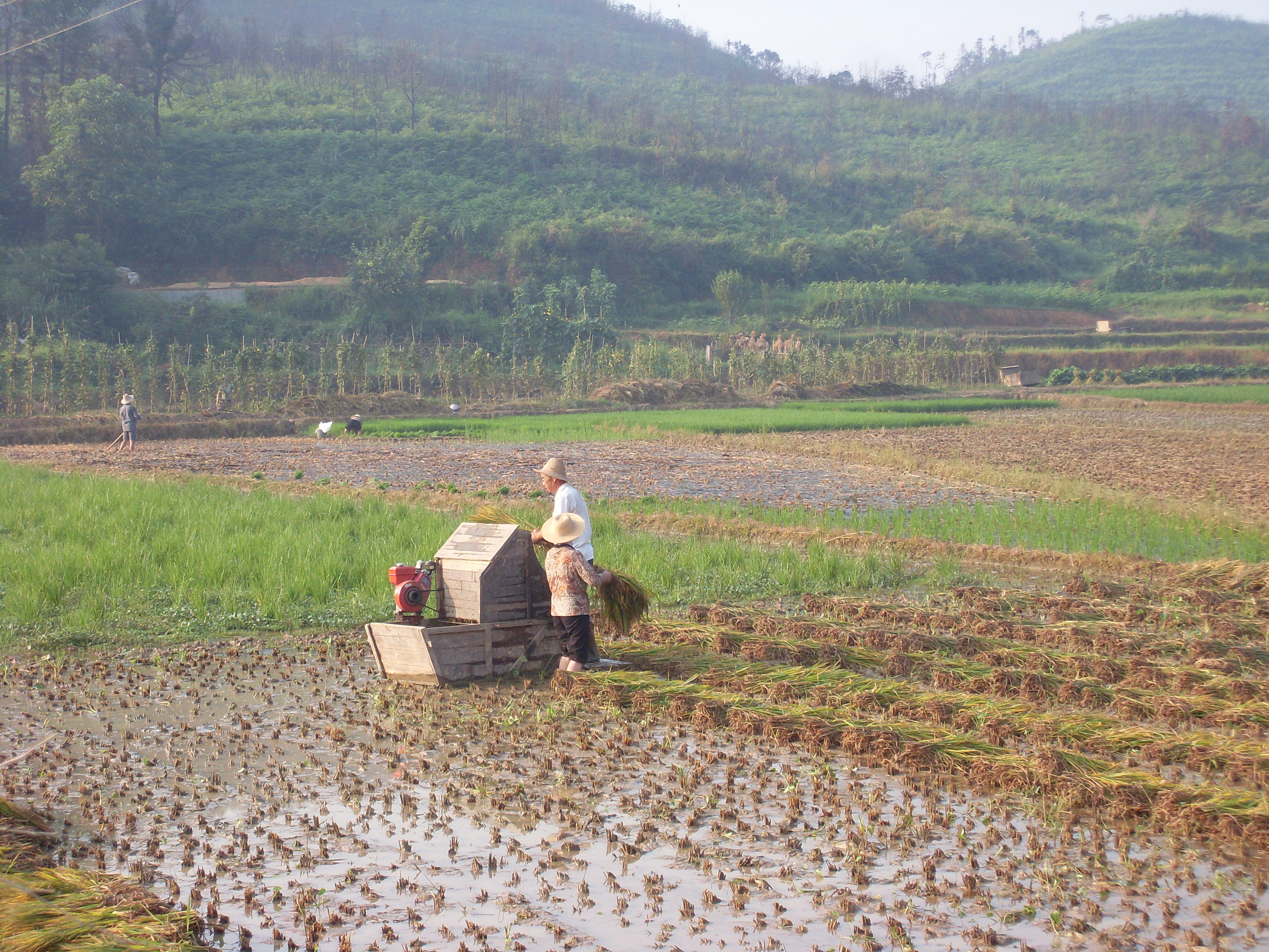 Harvest rice field in Xiangtan, Hunan, China.